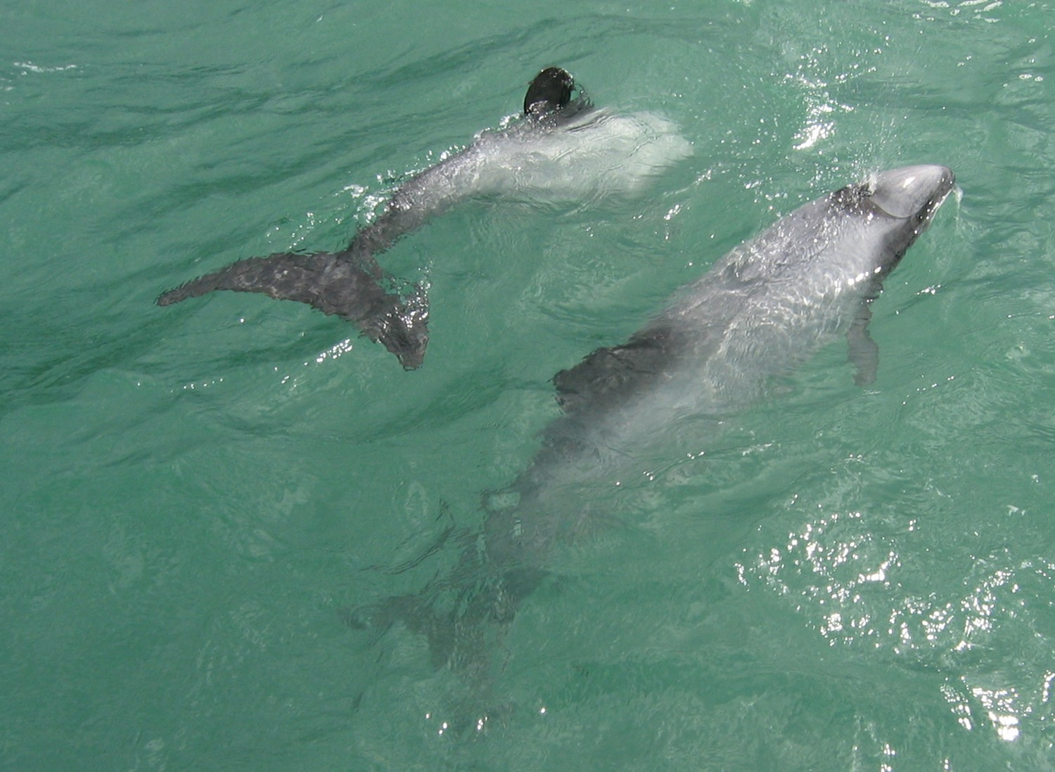 Two Hector's Dolphins (Cephalorhynchus hectori) swimming at Porpoise Bay, in the Catlins, New Zealand. One is expelling air from its blowhole (and spraying a little water) before taking a breath.